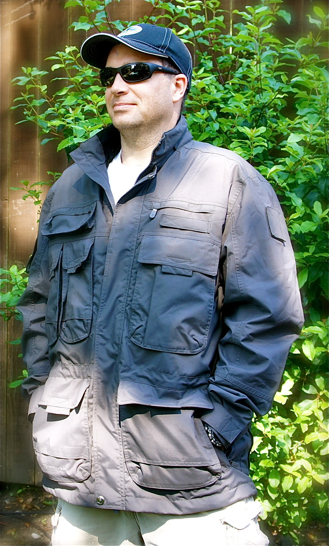 A man wearing a Scottevest jacket.